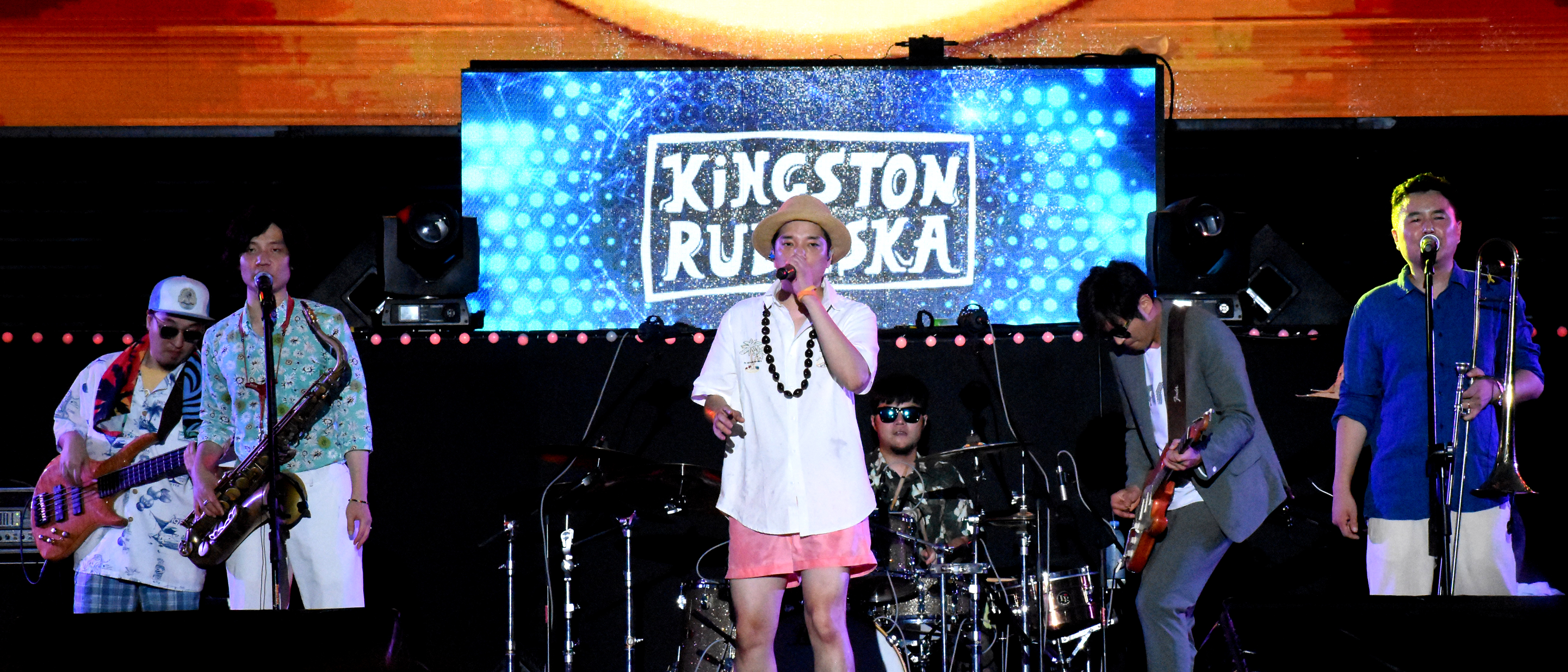 Kingston Rudieska at the 23rd Busan Sea Festival in Haeundae on August 2, 2018.